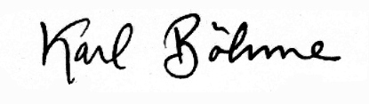 Signature of German painter Karl Theodor Böhme